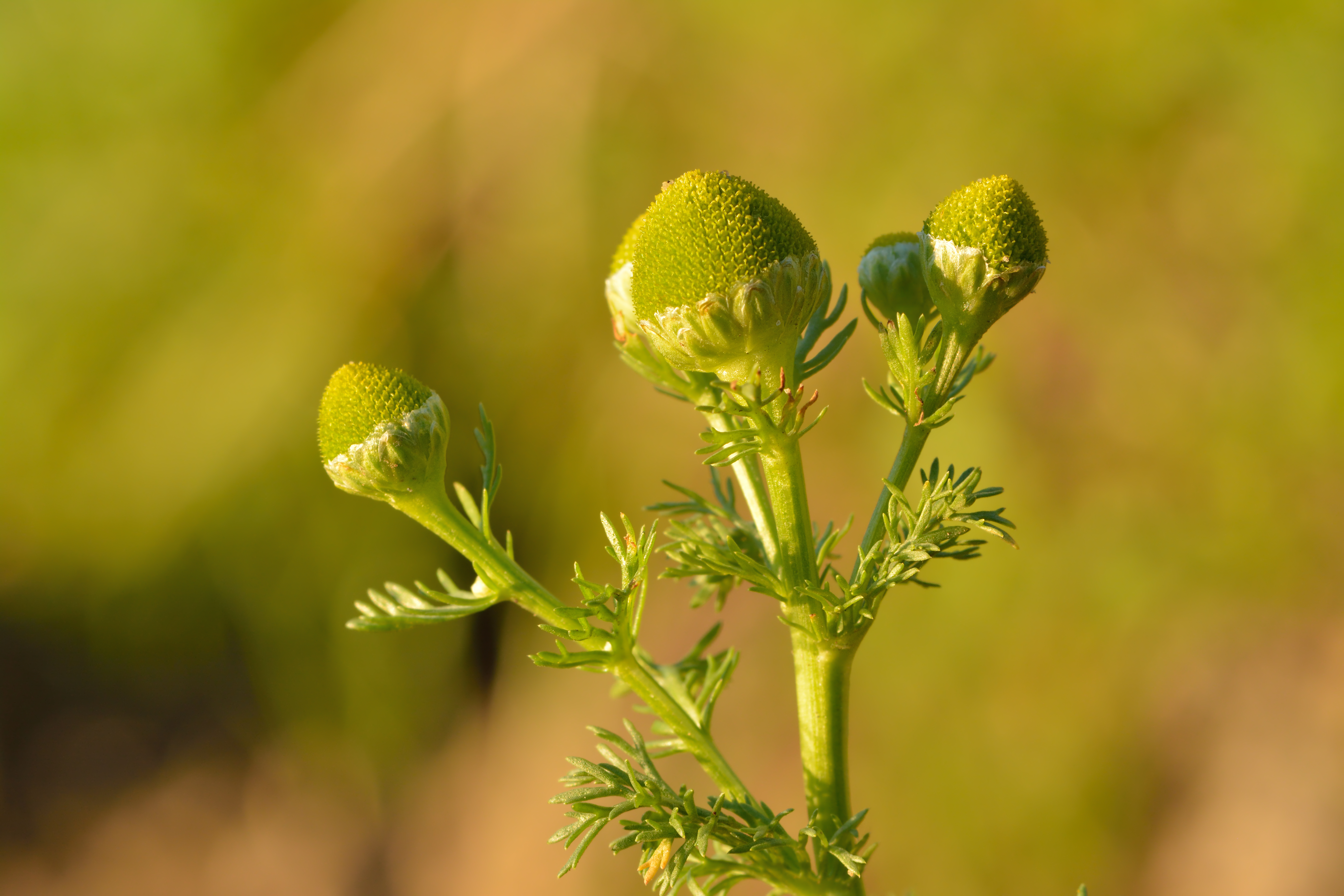 Matricaria discoidea - pineappleweed in Keila, Northwestern Estonia.